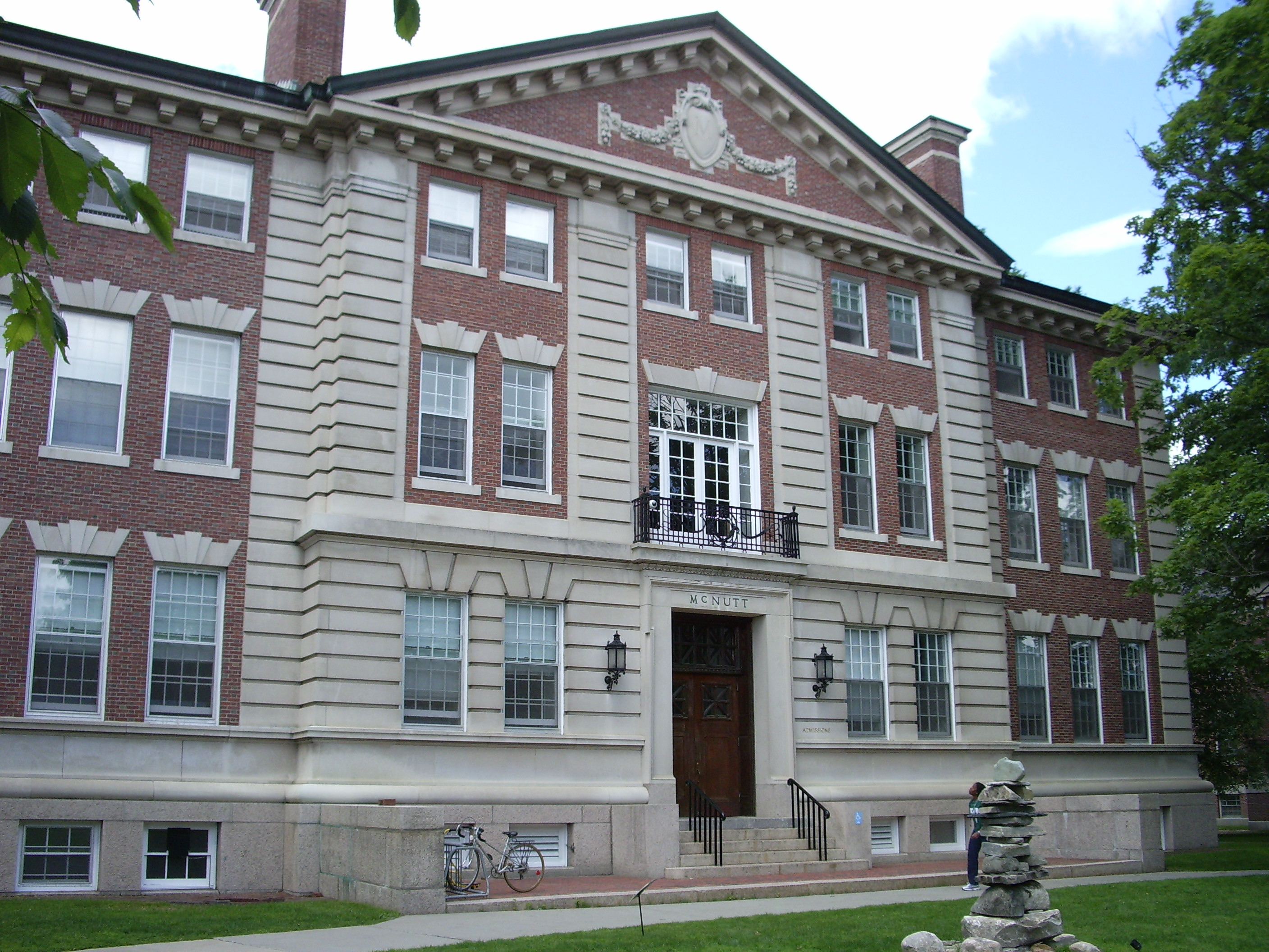 Photograph of McNutt Hall at the campus of Dartmouth College in Hanover, New Hampshire.